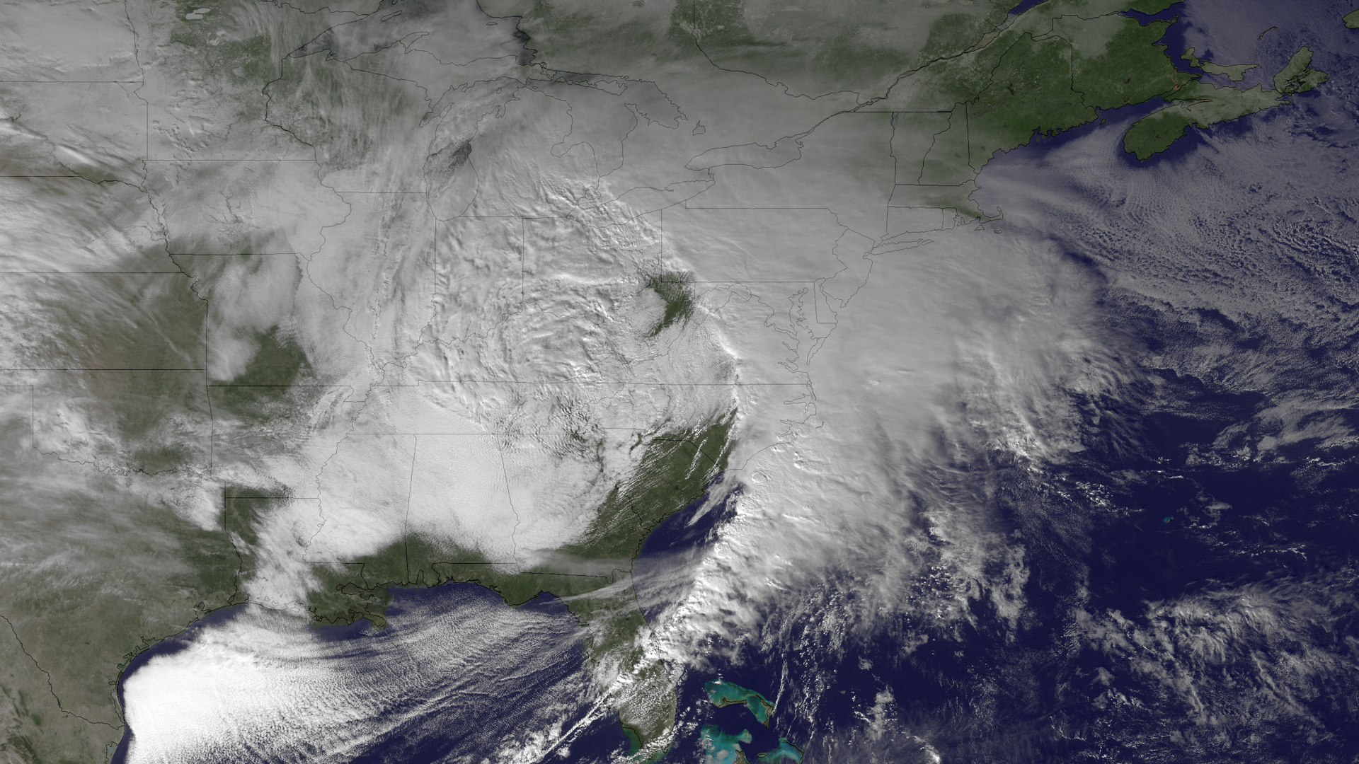 From the NOAA Environmental Visualization Laboratory: The strong storm system that brought a plethora of weather hazards to the central and southern U.S. on Christmas will shift to the eastern U.S. today. Heavy snow and blizzard conditions will impact the Ohio Valley into the Interior Northeast creating treacherous driving conditions for holiday travelers. Also, severe thunderstorms are forecast to develop today from southeast Virginia to Florida. This image was taken by GOES East at 1915Z on December 26, 2012.